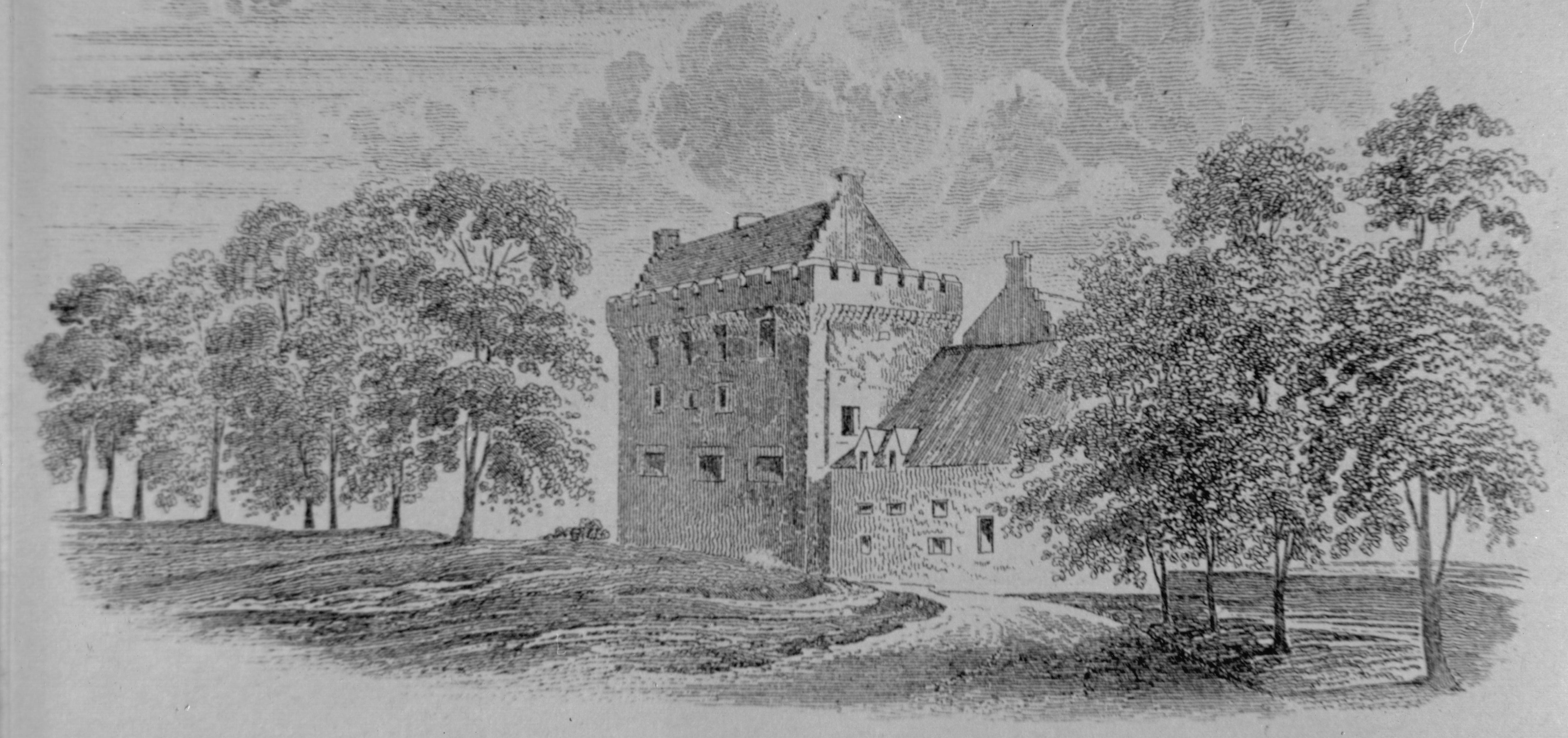 Eglinton Castle prior to 1805. North Ayrshire, Scotland. A Print dating from 1840.